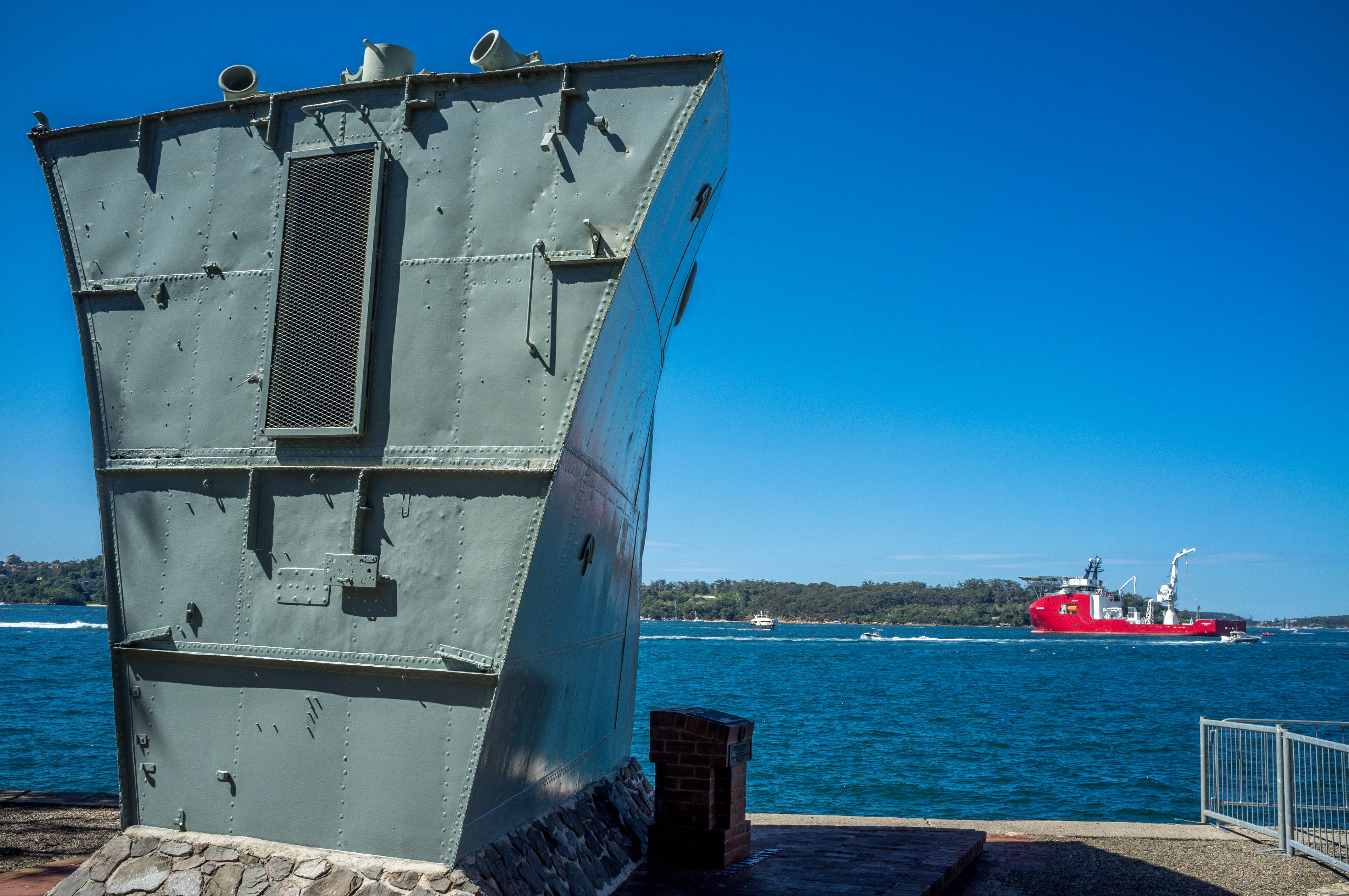 Bow of World War I Destroyer HMAS Parramatta preserved on Garden Island